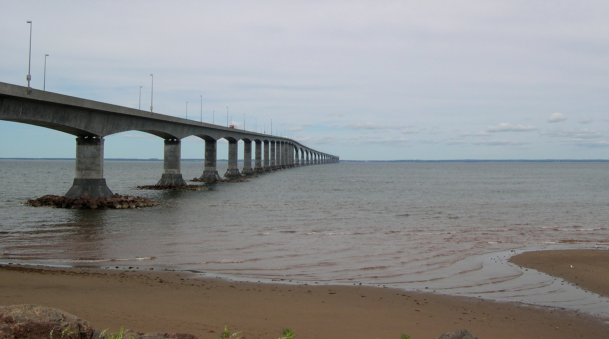 Confederation Bridge